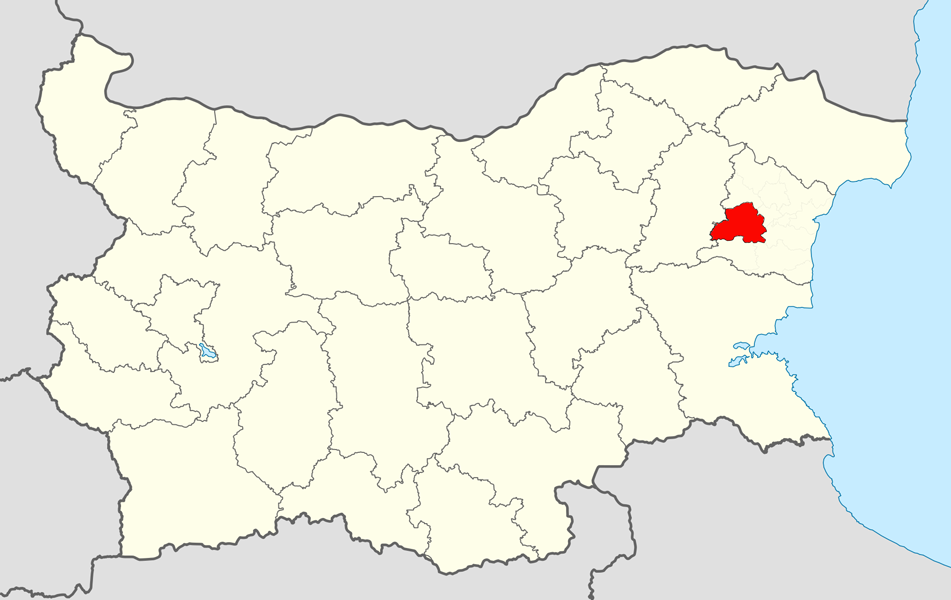 Location map of Provadiya Municipality within Varna Province, Bulgaria. Equirectangular projection, N/S stretching 130 %. Geographic limits of the map: N: 44.4° N S: 41.1° N W: 22.1° E E: 28.9° E